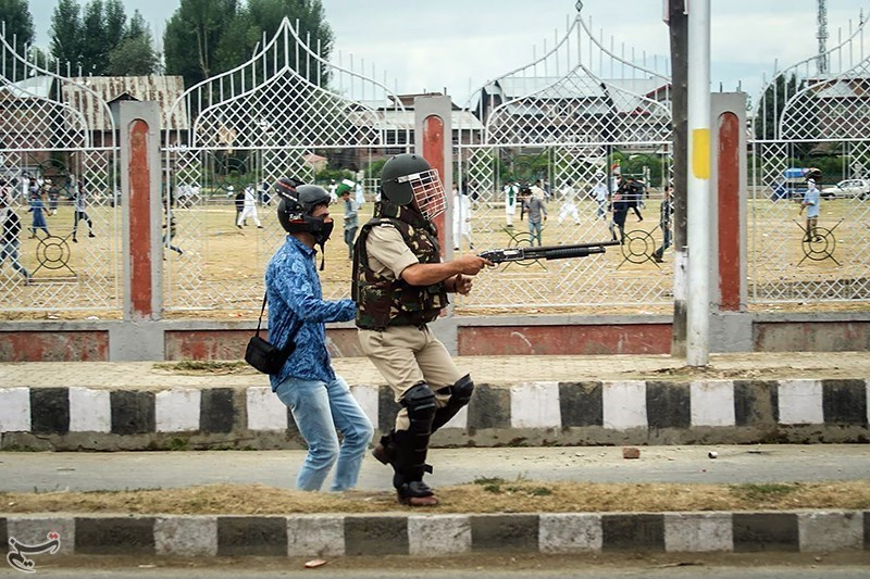 Police, Protesters Clash after Eid Prayers in Kashmir September, 02, 2017 - 14:50 Indian security forces used tear gas and pellet guns to disperse thousands of pro-independence demonstrators following Eid al-Adha (the Feast of Sacrifice) prayers in Kashmir